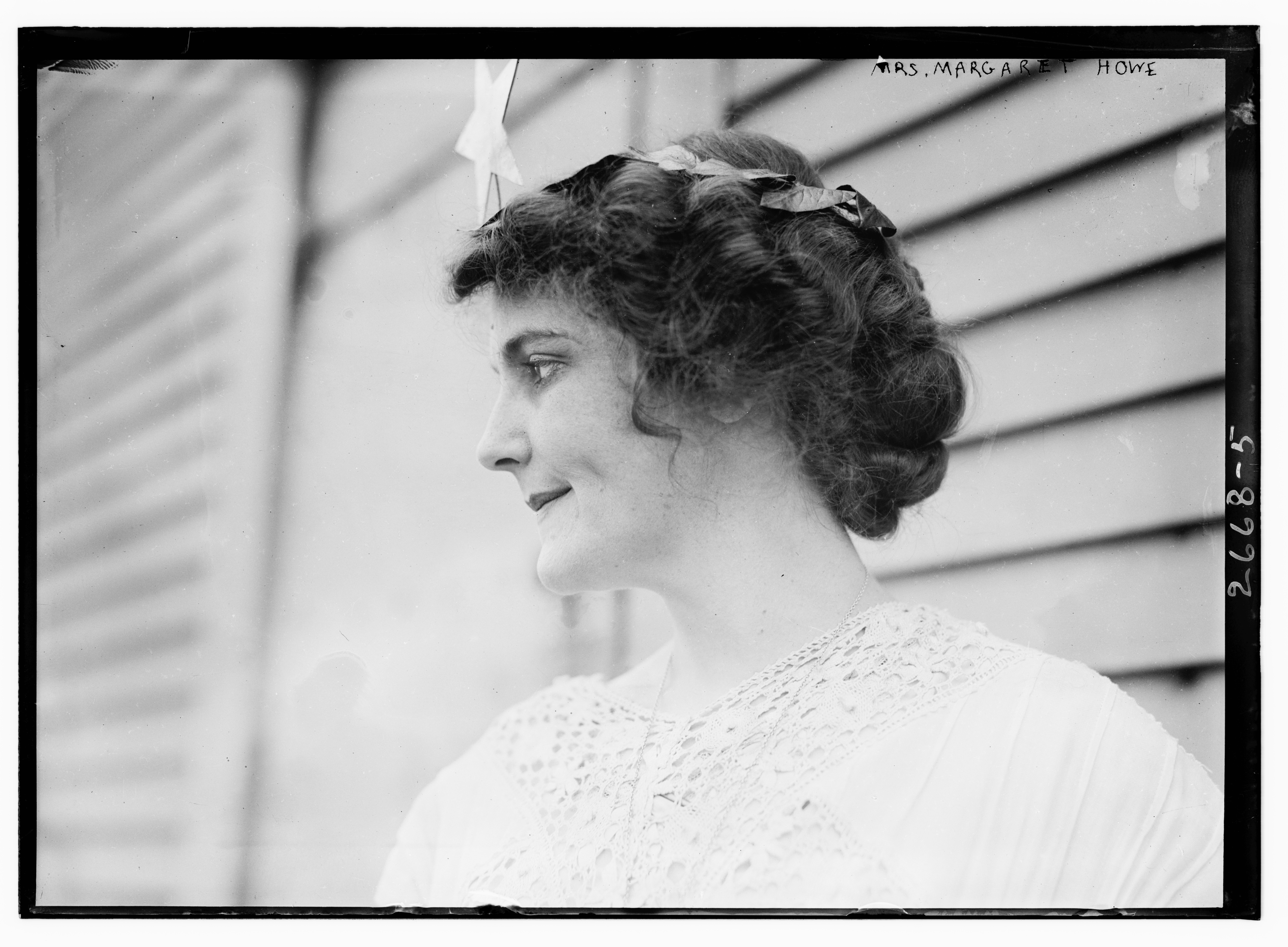 Bain News Service,, publisher. Mrs. Margaret Howe circa 1913 [no date recorded on caption card] 1 negative : glass ; 5 x 7 in. or smaller. Notes: Title from unverified data provided by the Bain News Service on the negatives or caption cards. Forms part of: George Grantham Bain Collection (Library of Congress). Format: Glass negatives. Repository: Library of Congress, Prints and Photographs Division, Washington, D.C. 20540 USA, General information about the Bain Collection is available at Persistent URL: Call Number: LC-B2- 2668-5